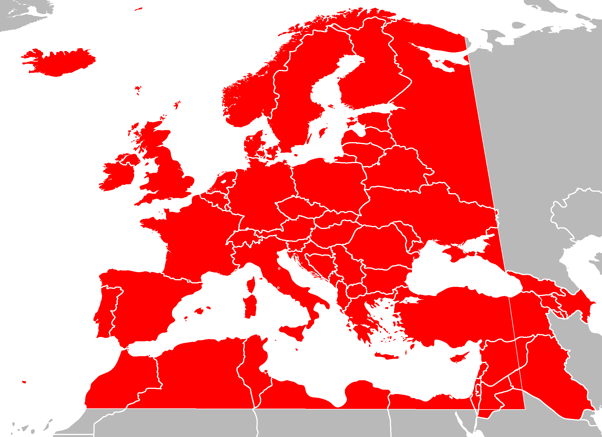 Map shows the limits of the European Broadcasting Area (as per ITU-R Radio Regulations (2012)). Source for map: File:BlankMap-Europe-v4.png